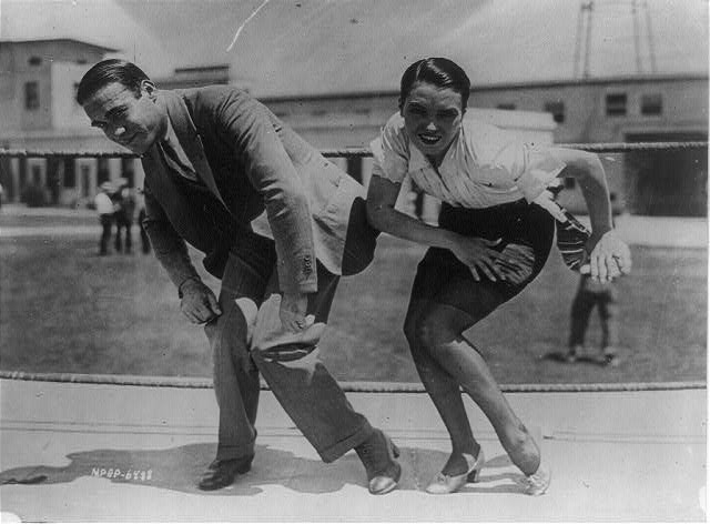 Original caption: "Frank Farnum coaching Pauline Starke. And now the Charleston is moving into the movies! Pauline Starke will introduce it to the movie public at large when in the role of a chorus girl in Metro-Goldwyn-Mayer's A Little bit of Broadway, she performs it on the screen. Frank Farnum, originator of the step, gave her first-hand (or foot) instructions." The film version of the story A Little bit of Broadway was titled Bright Lights and was released in 1925.